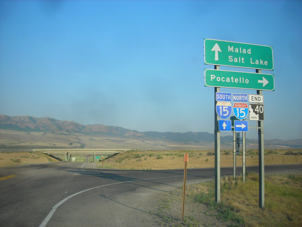 The western terminus of Idaho State Highway 40 at an interchange with Interstate 15, looking west.